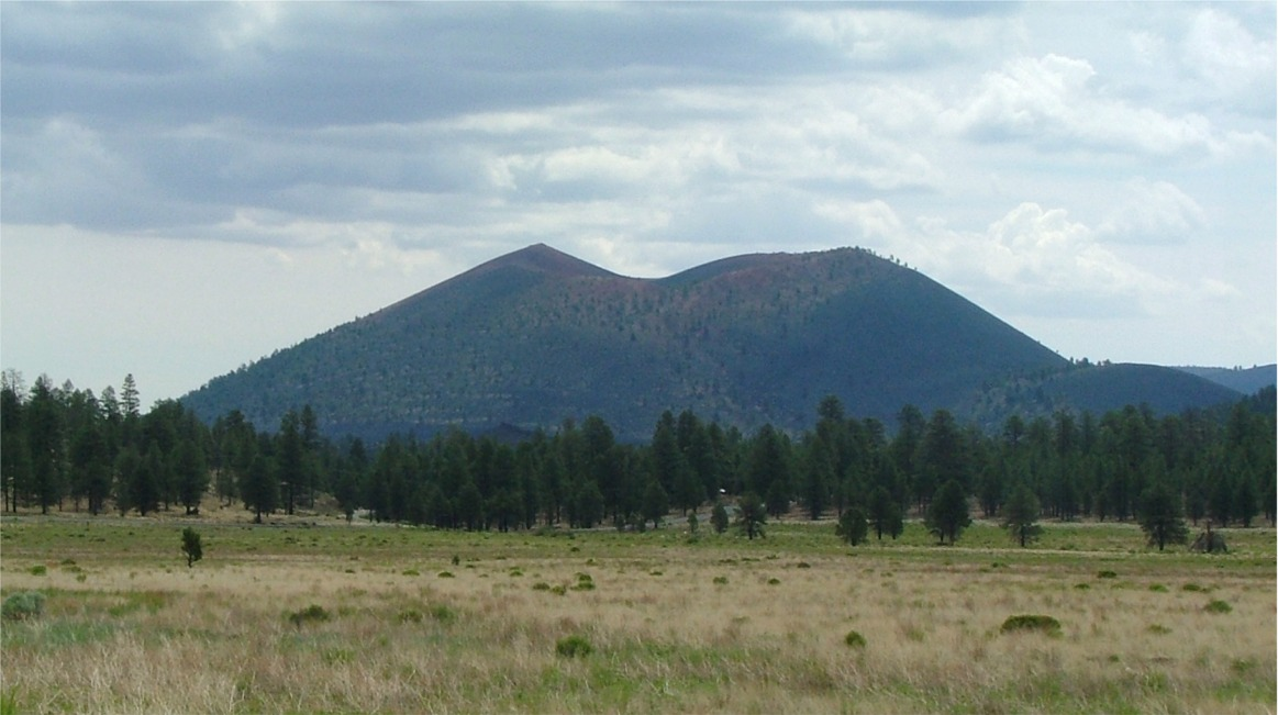 Sunset Crater north of Flagstaff, Arizona